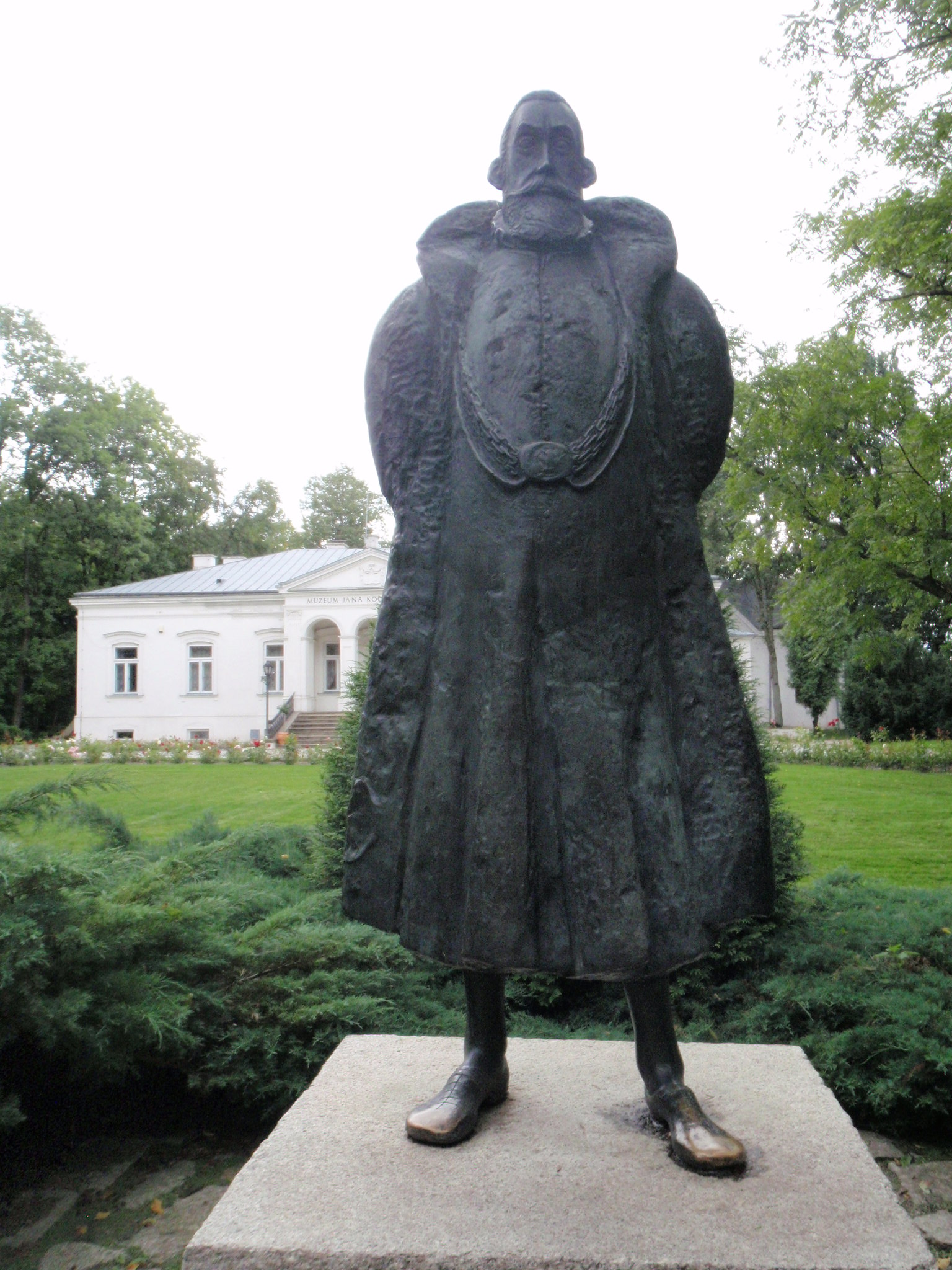 Museum of Jan Kochanowski in Czarnolas - statue of Kochanowski